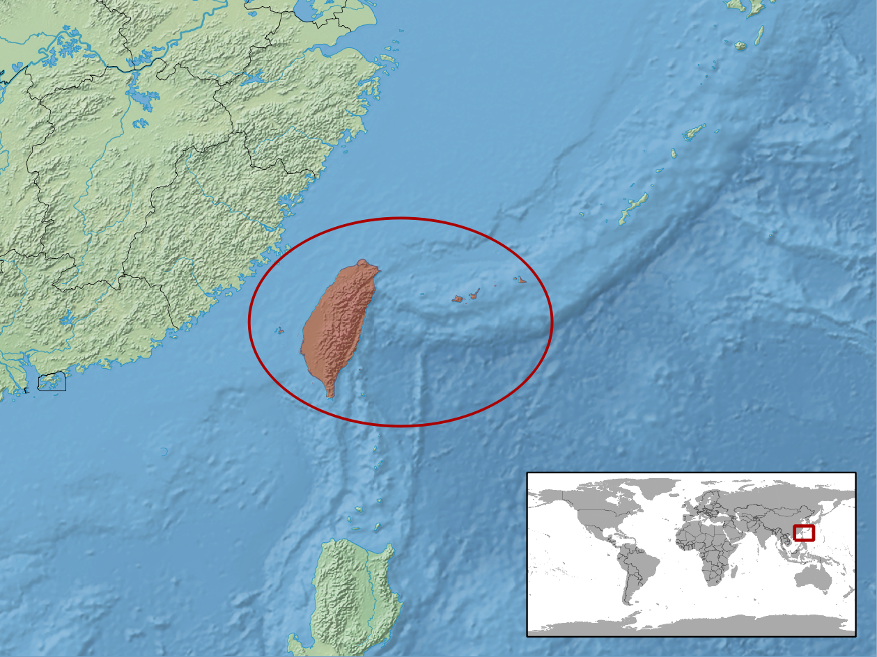 geographic distribution of Achalinus formosanus (Native: Japan; Taiwan, Province of China)